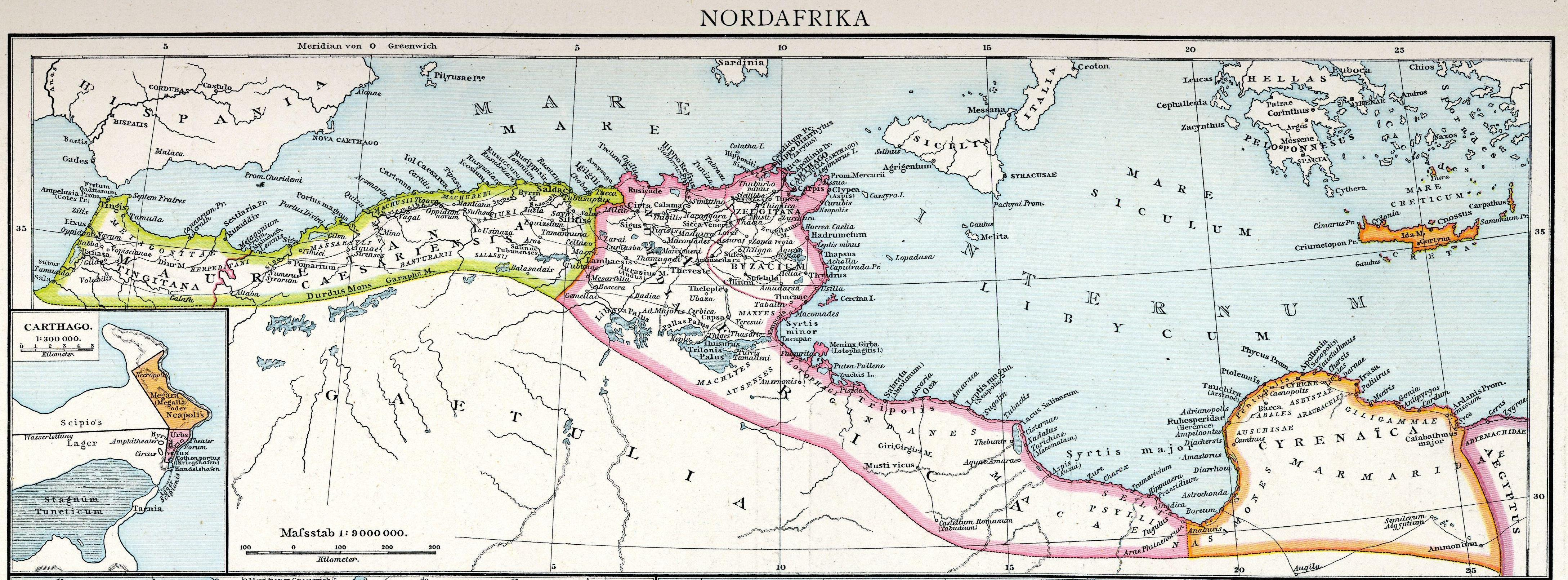 Roman provinces of the North Africa. (Map of the Historical Atlas of Gustav Droysen, 1886)